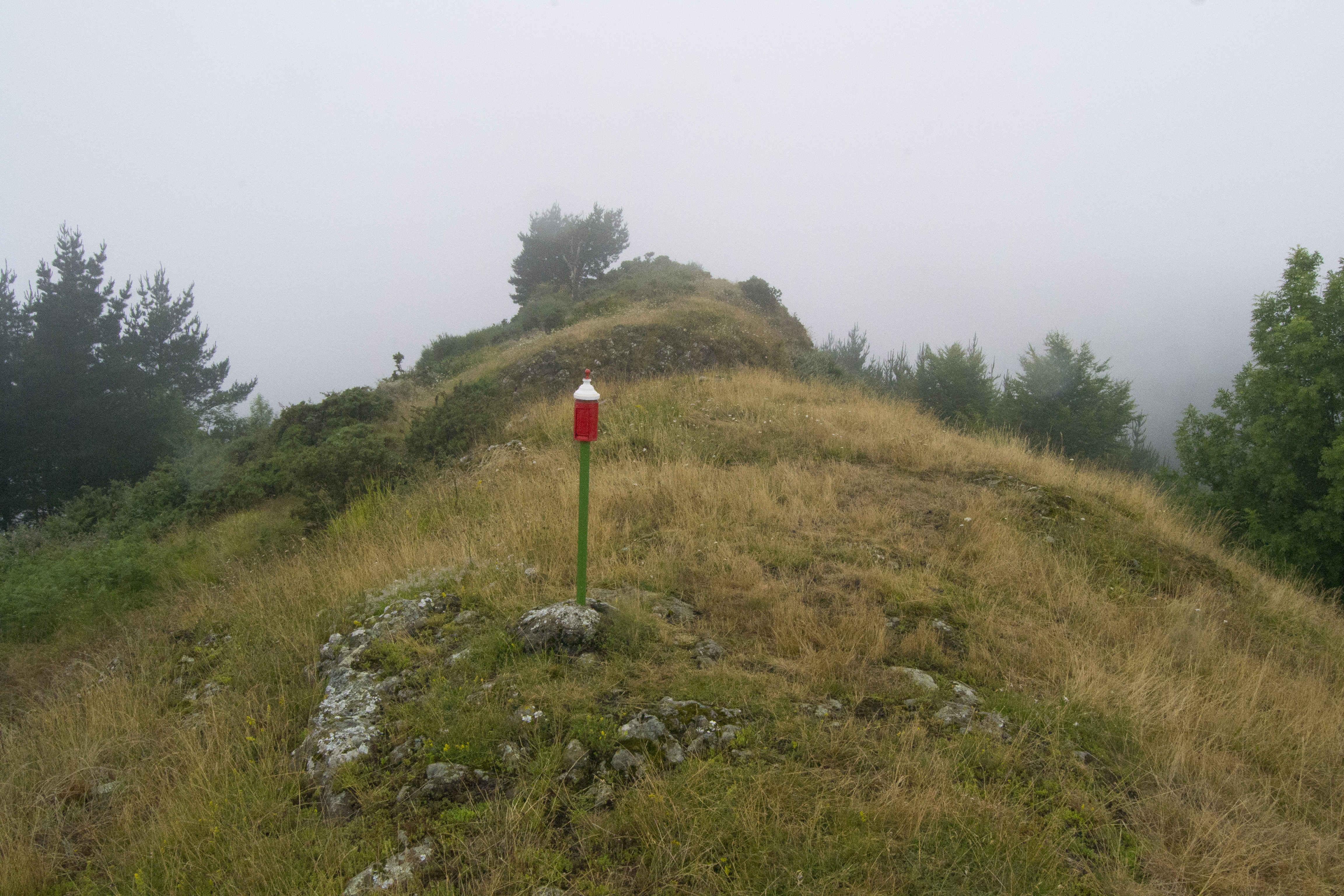 Gaztelumendi mountain. Intxorta, Elgeta. Gipuzkoa, Basque Country.